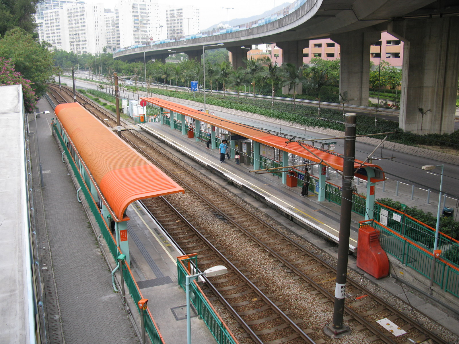 輕鐵 龍門站 Lung Mun Stop, Light Rail